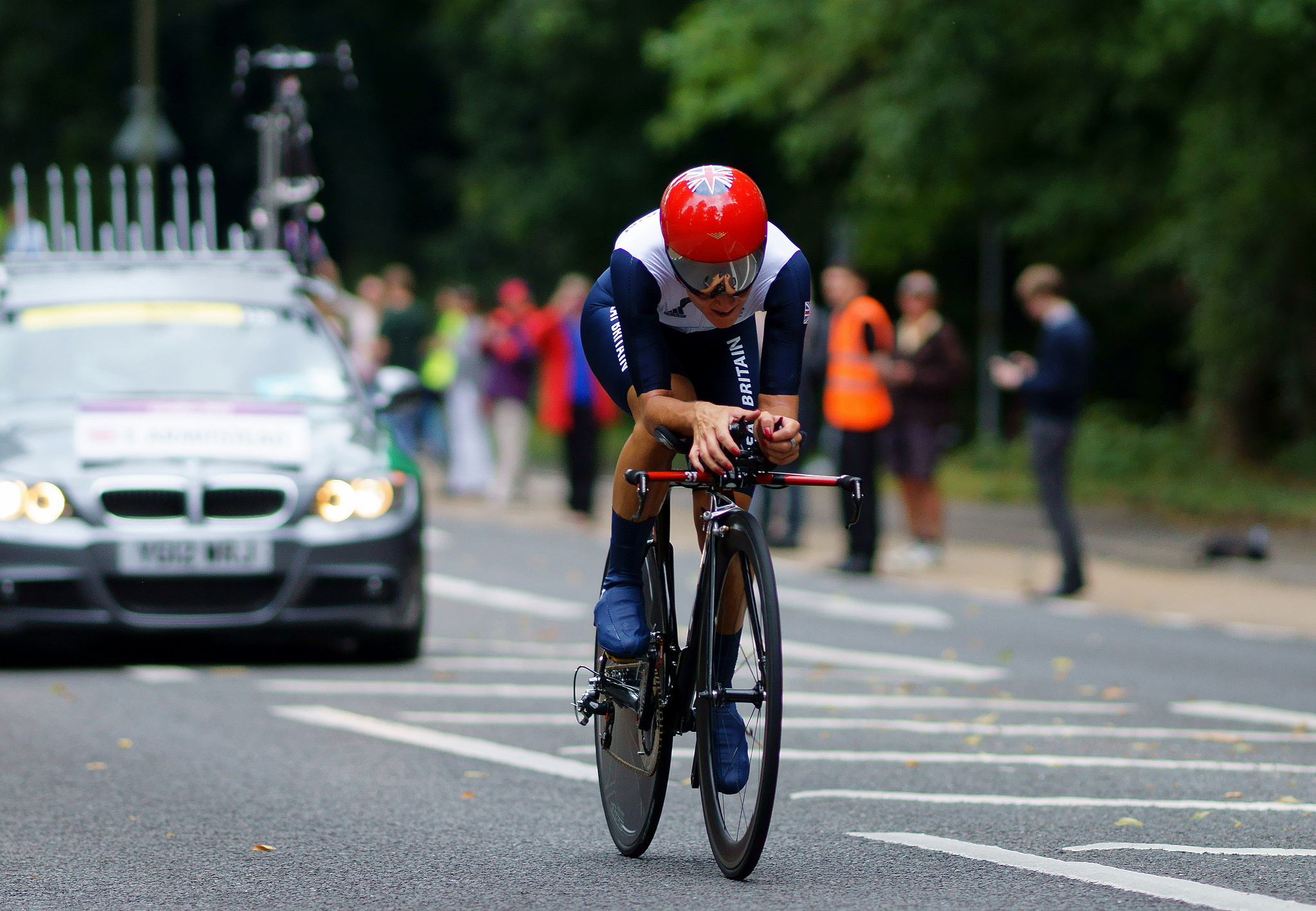 Seen in action, during the Olympic Games 2012 time trial.